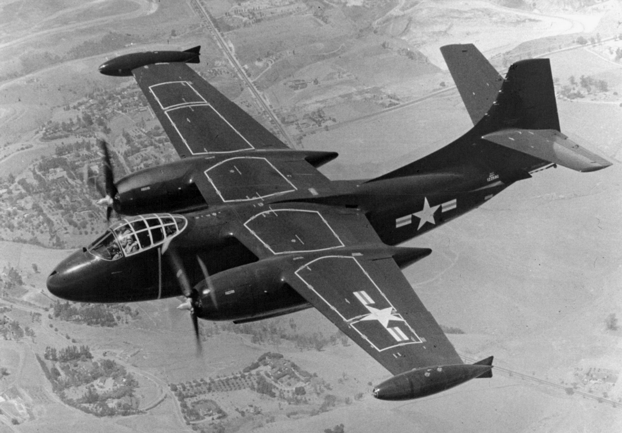 A U.S. Navy North American AJ-1 Savage (BuNo 122590) in flight over southern California (USA). This was the first production aircraft and it already crashed and burned near Bedford, Virginia (USA) on 22 June 1950 on a ferry flight from Edwards Air Force Base, California to Naval Air Station Patuxent River, Maryland (USA). The crew of three was killed. Note that it is not fitted with spinners.